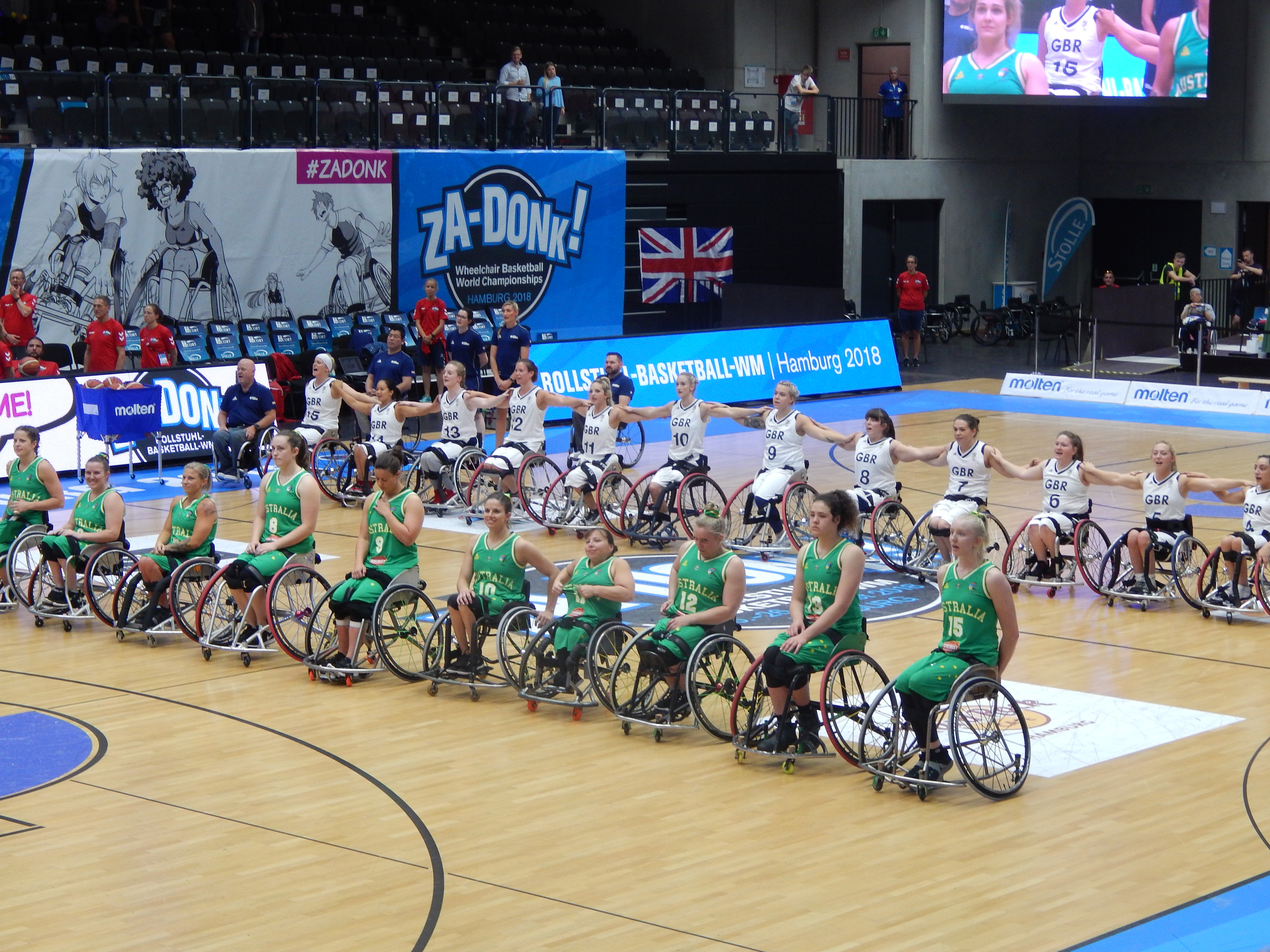 Australian Gliders in Hamburg 2018 - game against Great Britain